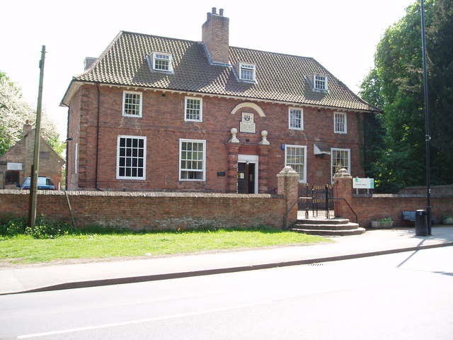 Read Grammar School (now library) Tuxford, Nottinghamshire. This magnificent building, situated opposite the church, now houses a branch of the County Library. The Read Grammar School was endowed by Charles Read in 1669.